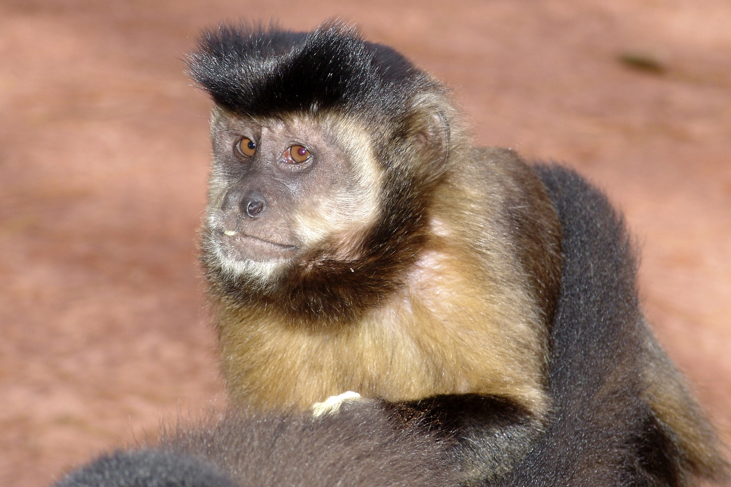 Tufted Capuchin - (Photo shot in the nature, it is not Captivity!!)